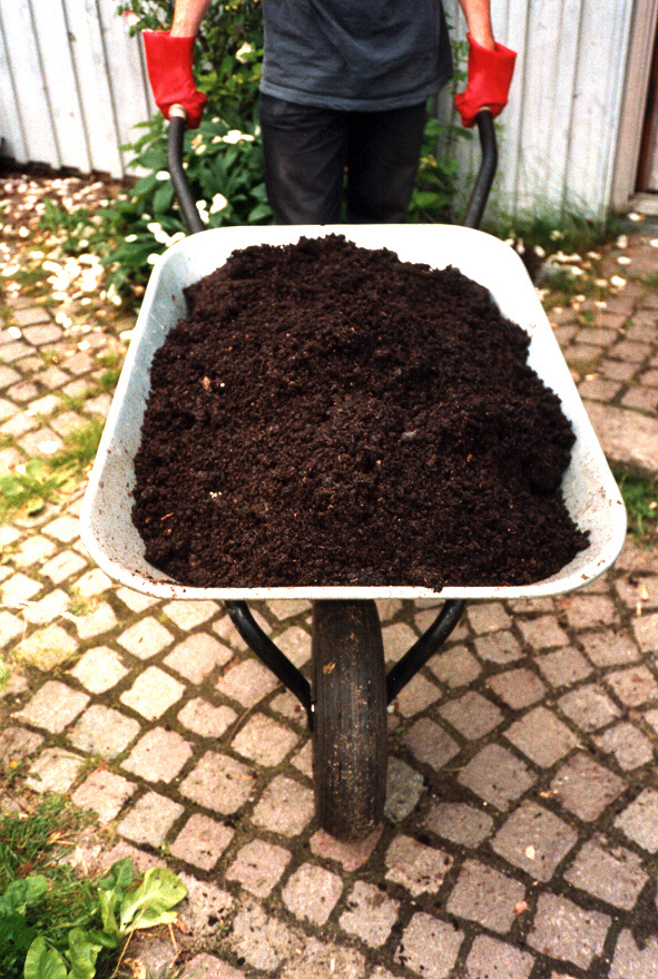 Photo by Wolfgang Berger, Hamburg